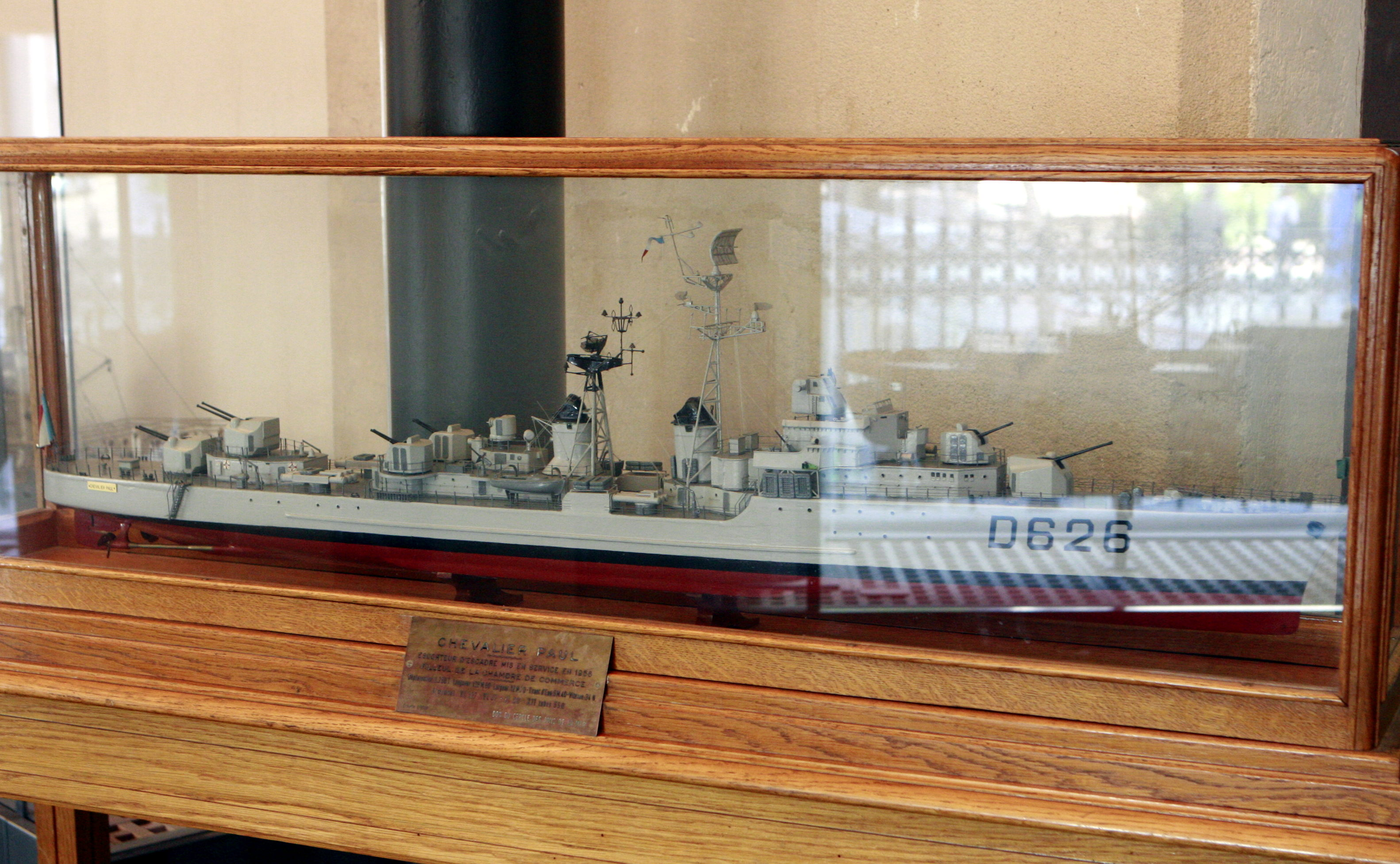 1/100 scale model of T47 class fleet escort Chevalier Paul (D626) On display at Marseille naval museum